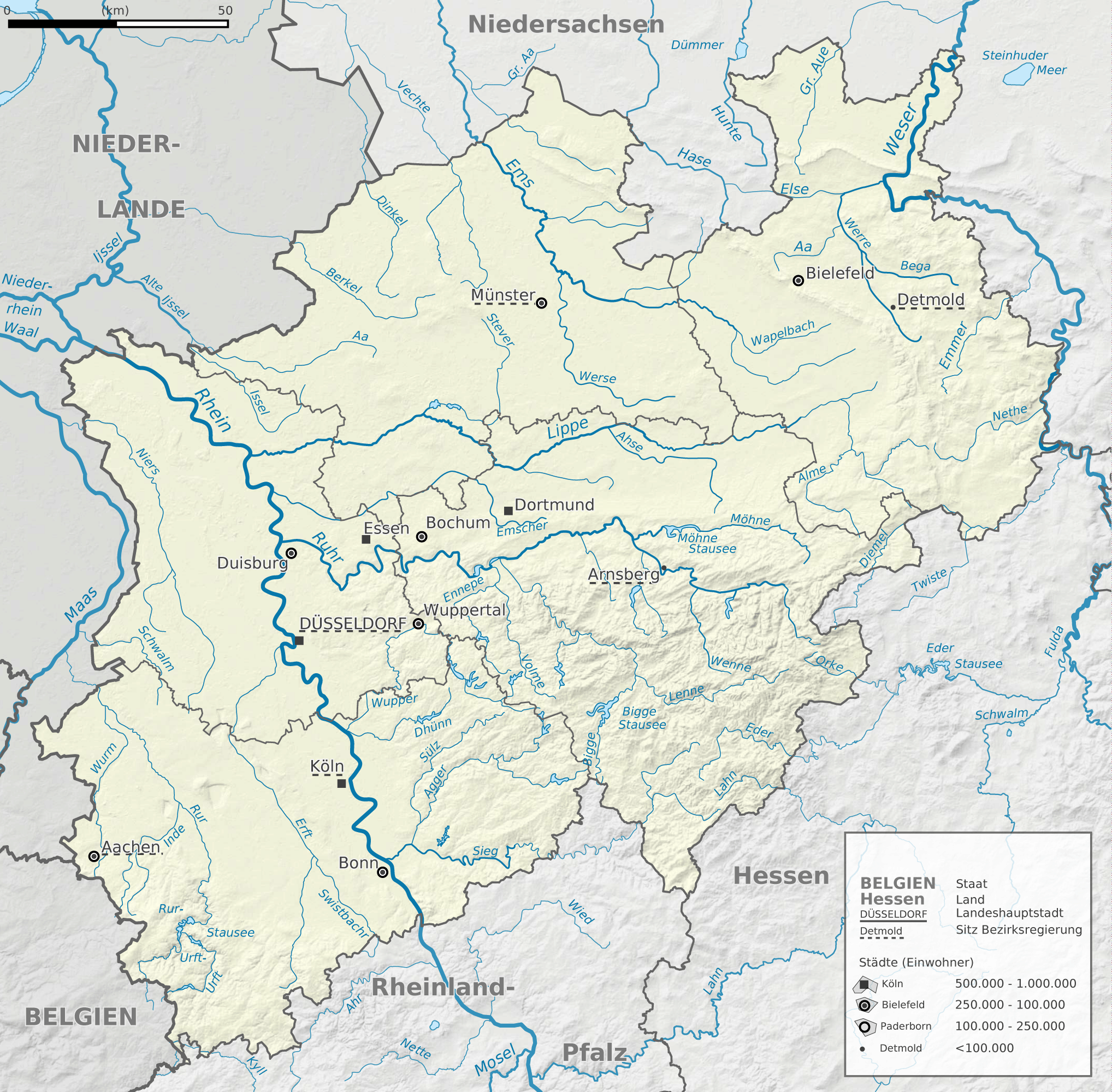 Topographic map of North Rhine-Westphalia, Germany.